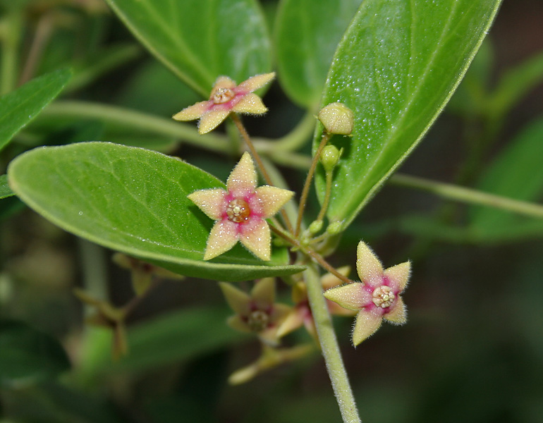 Indian ipecac or Anntmool Tylophora indica at Talakona forest, in Chittoor District of Andhra Pradesh, India.